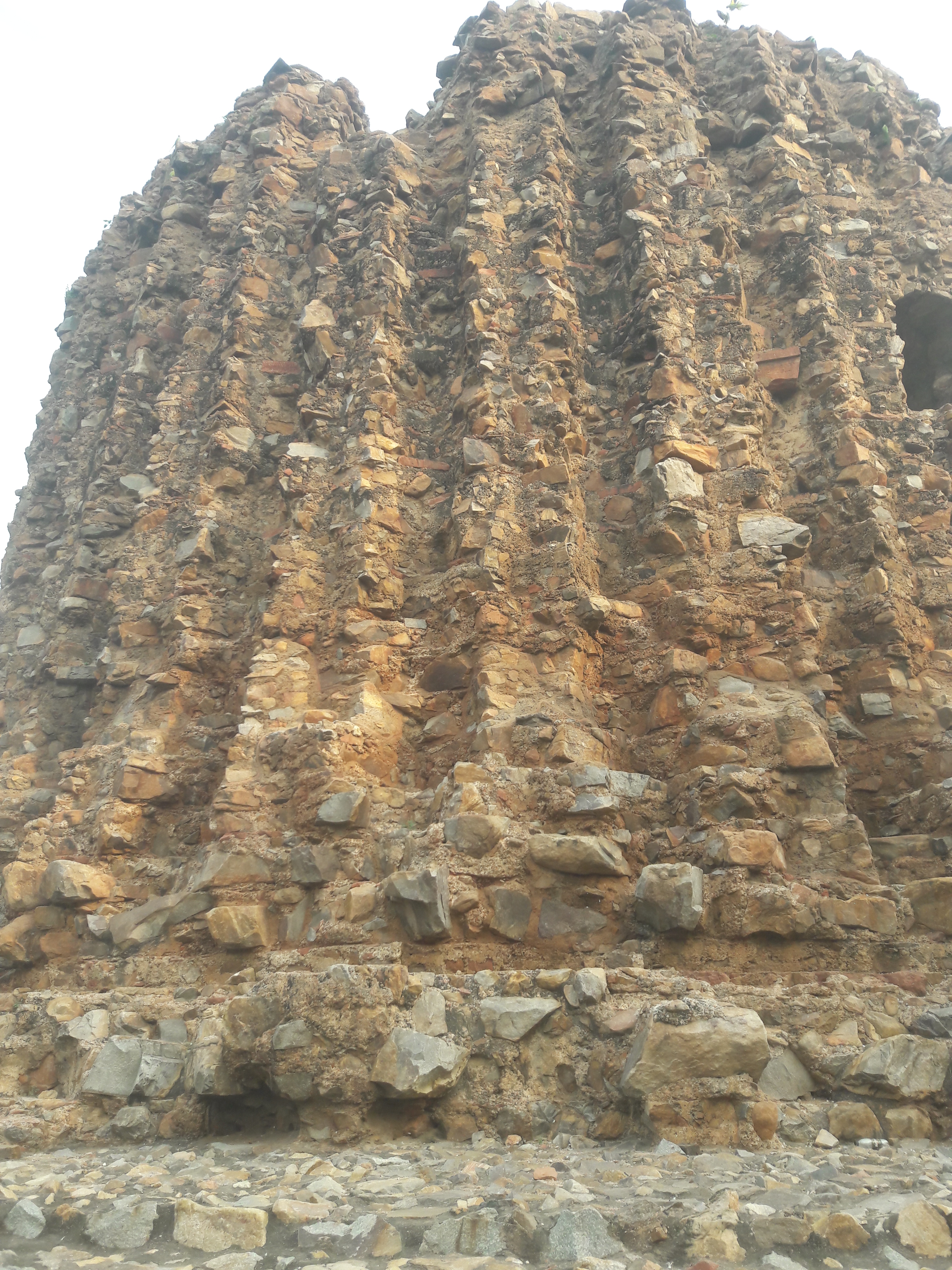 this is an unfinished one story tower built during the Khilji dynasty to commemorate military victories